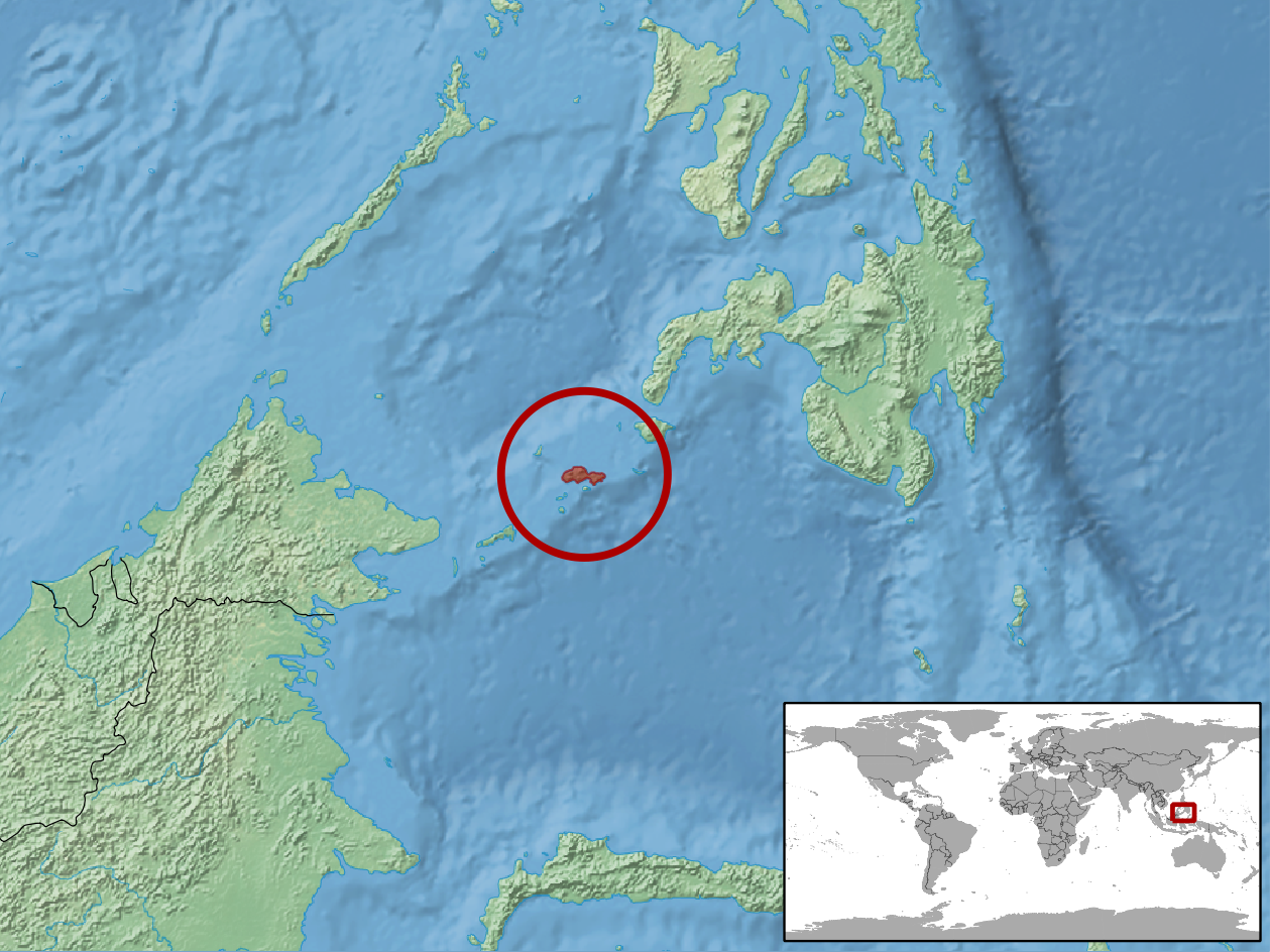 geographic distribution of Luperosaurus joloensis (Native: Philippines)